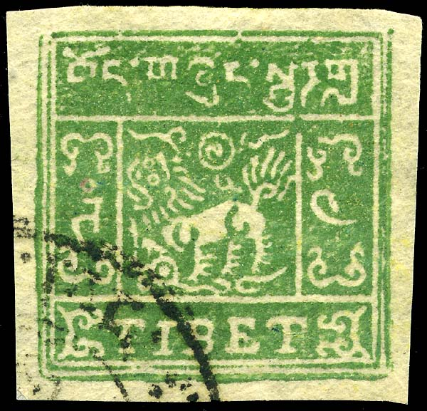 Tibet 4t stamp of 1934, with Tibetan Snow Lion image. (This stamp (and postmark) is likely a forgery. See Waterfall Handbook. 2nd set of forgeries of 1933 issue.)